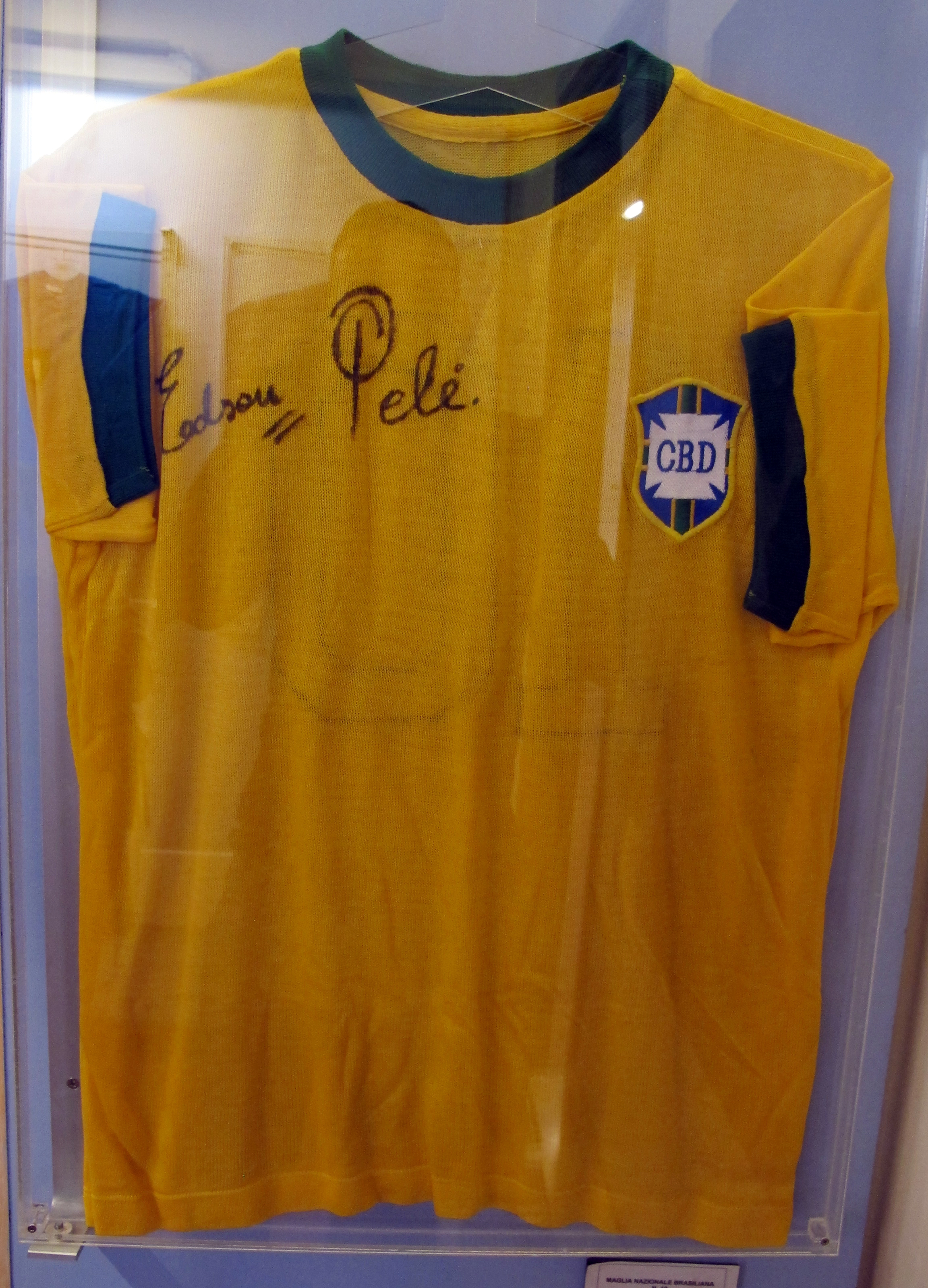 Collections of the Museo del Calcio (Florence)